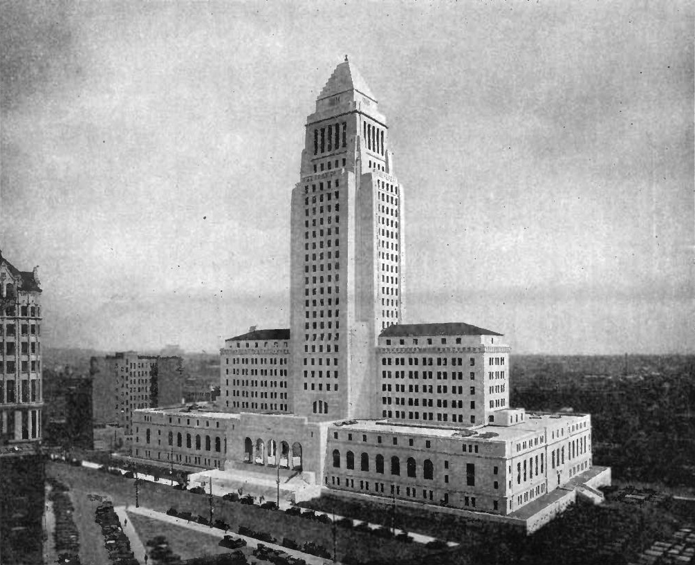 The Los Angeles City Hall. View West facade, entrance stairs, and entry courtyard. Date In 1931, shortly after its completion Original caption "New Los Angeles City Hall which rises 28 stories and dominates the Civic Center" Overland Monthly; August-September 1931 issue.